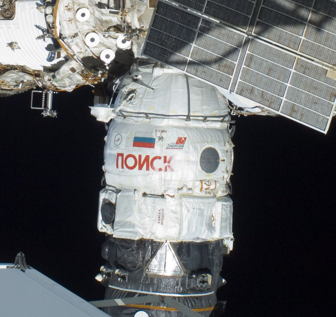 Poisk (MRM-2) with Progress M-MIM2 docked to Zvezda Zenith, as seen during STS-129 EVA3.